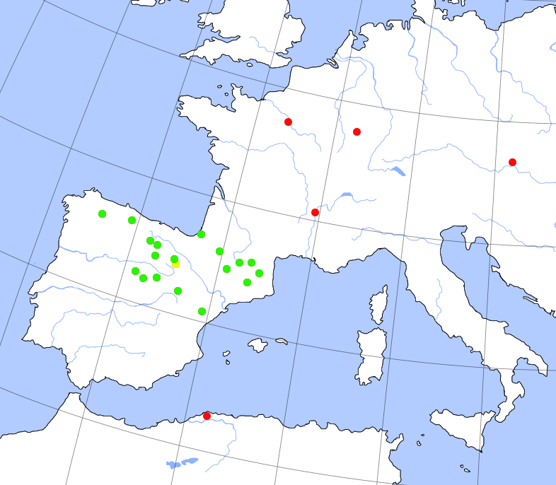 Distribution map of Thyreophora cynophila - Legend : Red =Data date before 1850, Yellow = Data date 1902, Green = Data date after 2007 Sources : Studies 1, 2, 3, 4, 5, 6, 7 and 8